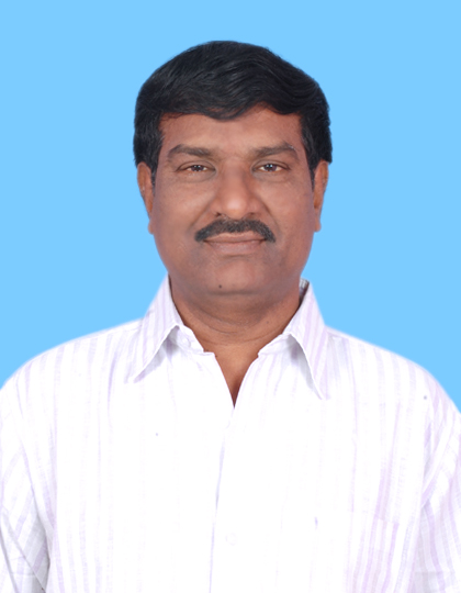 Nallabati Raghavendra Rao